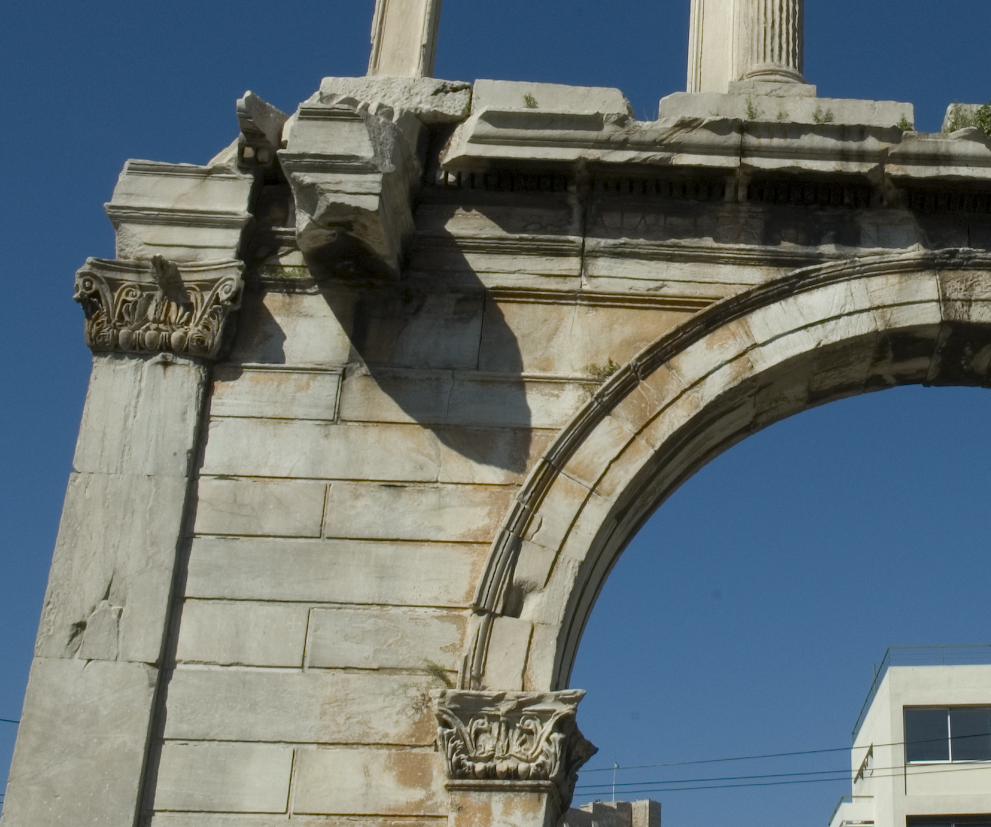 J. Matthew Harrington, personal digital image